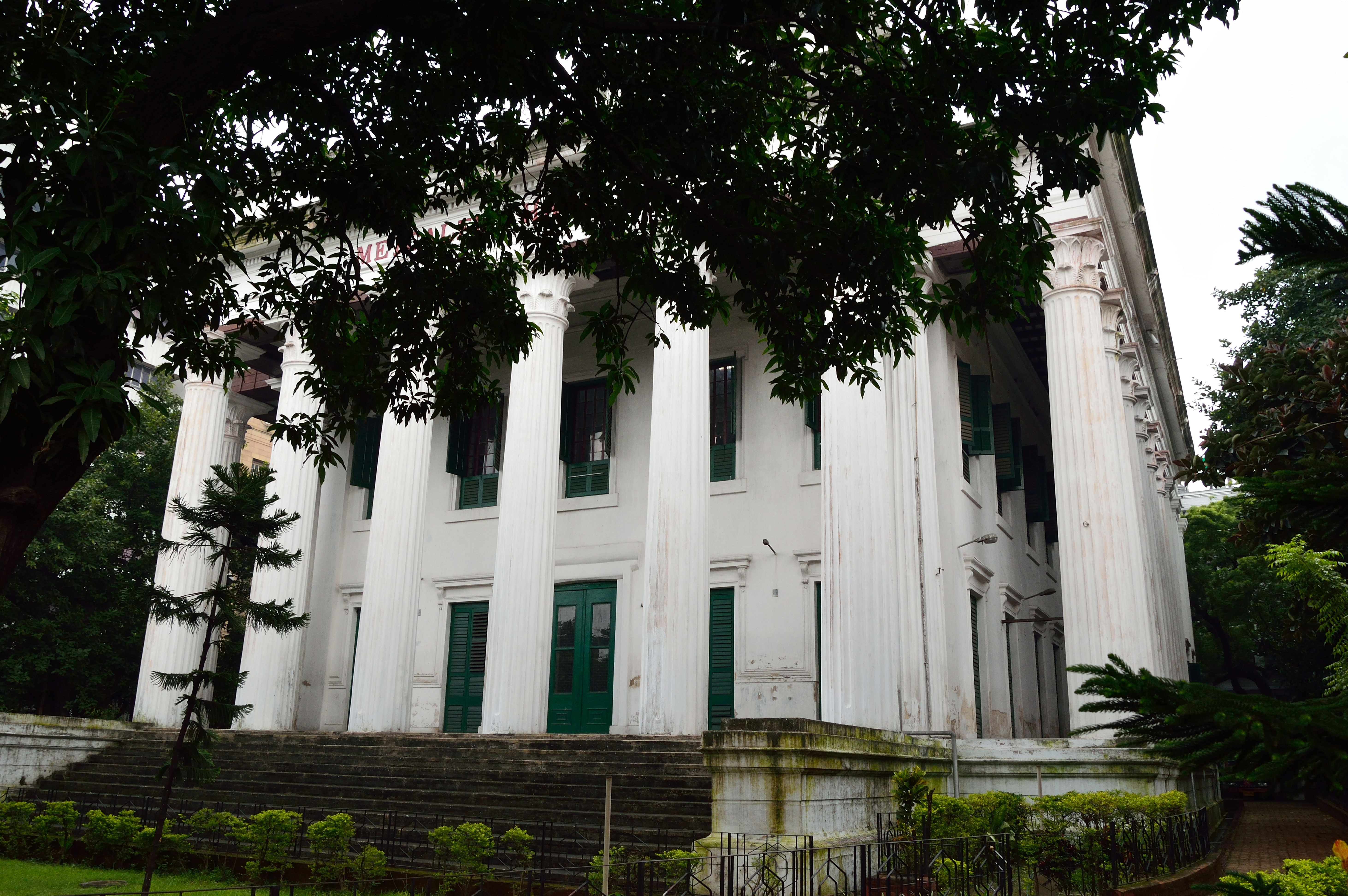 The Metcalfe Hall was erected as its name imparts to perpetuate the memory of Lord Metcalfe, who officiated as Governor General of India from March 1835 to March 1836. It was originally conceptualised as a Public Library later on housed the Imperial Library.